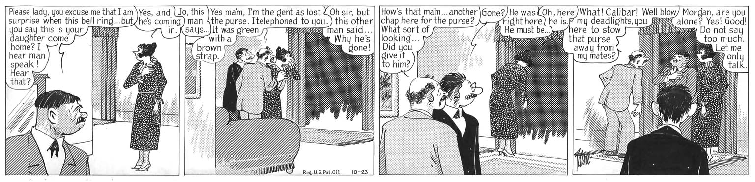 Comic strip of The Bungle Family. A search for renewal in contributions to publications and artwork was done for the years 1962 and 1963. There were no listings for either McNaught or Tuthill; there's no evidence of a continuing copyright claim on this.